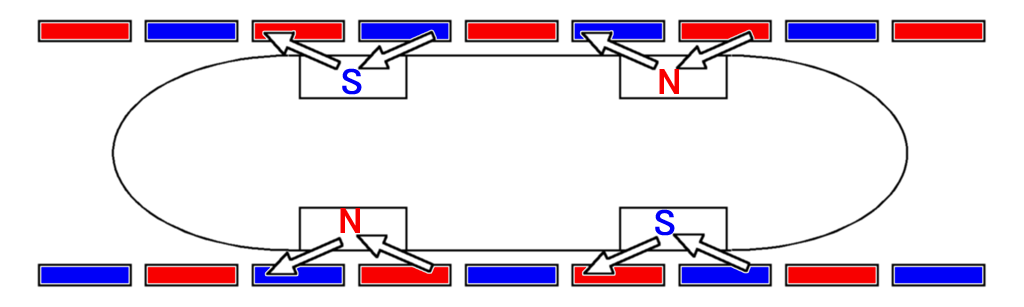 Diagram is from a perspective above the train and shows how the train moves forward, by being attracted to the next electromagnet and being repelled by the previous one.